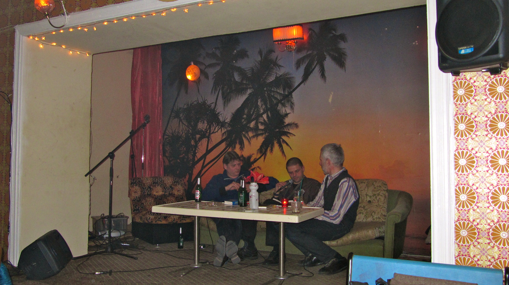 Podcast "Küchenradio" with guest Falko Hennig